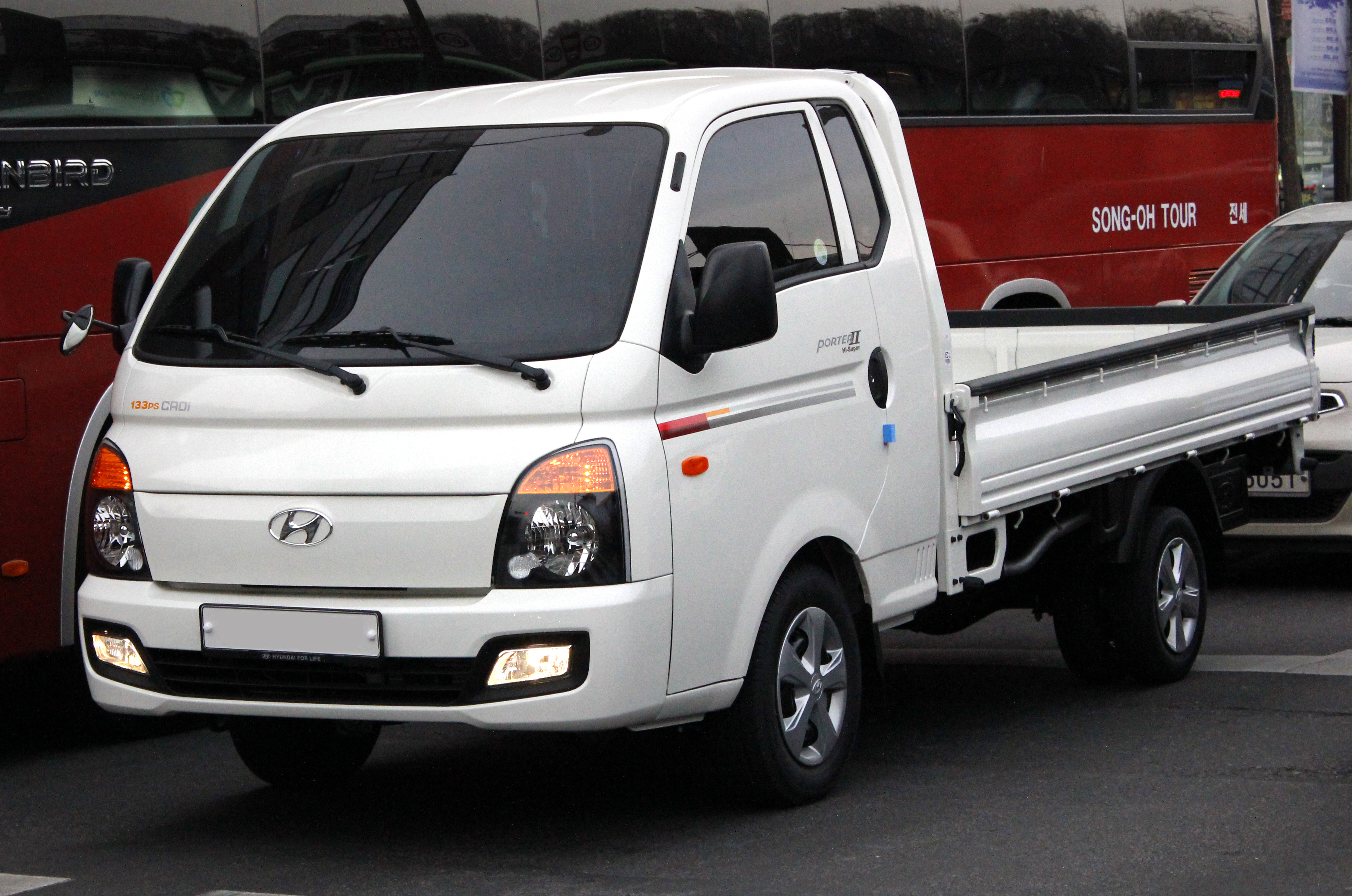 4th Gen F/L